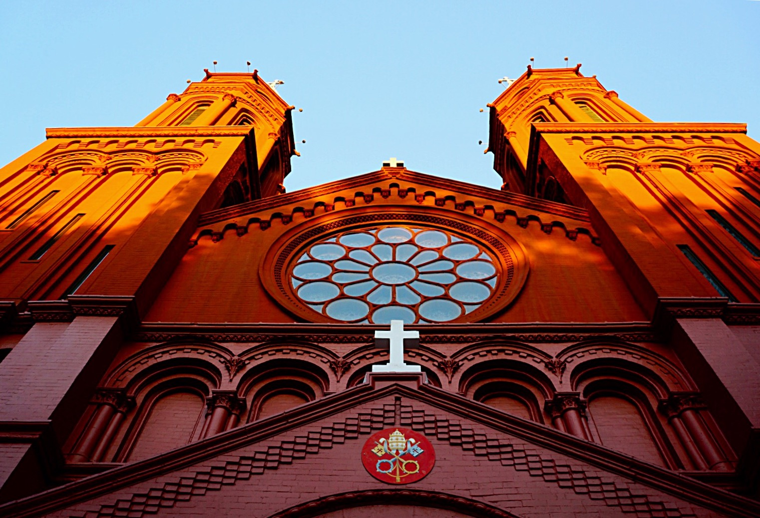 Church of the Sacred Heart of Jesus in Atlanta, GA